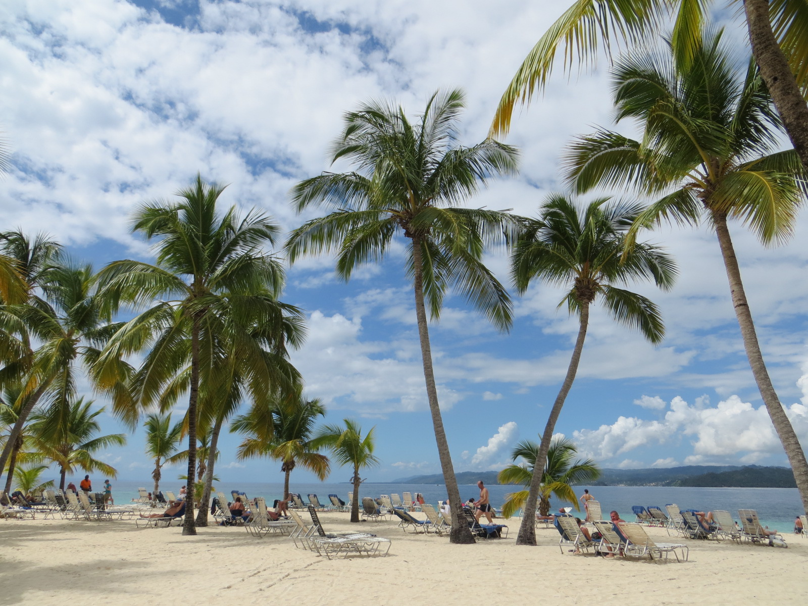 Cayo Levantado, Samana, Dominican Republic